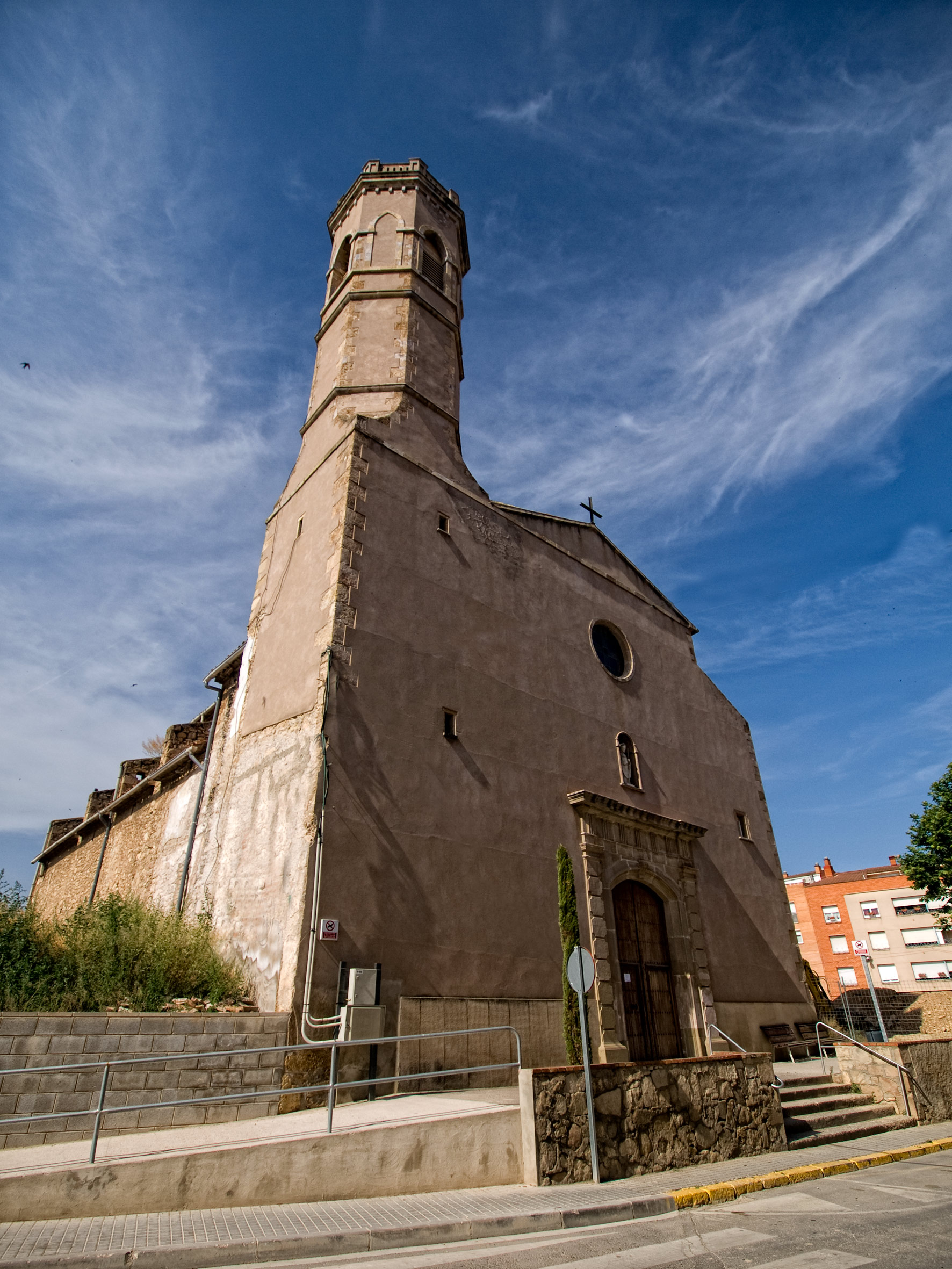 Sant Hilari church of Vilanova del Camí (Catalonia, Spain)